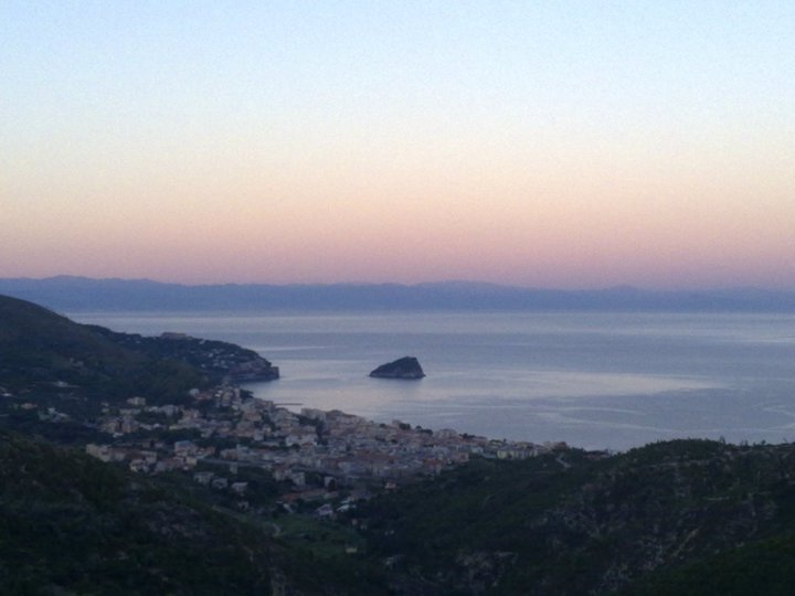 Spotorno's Sunset